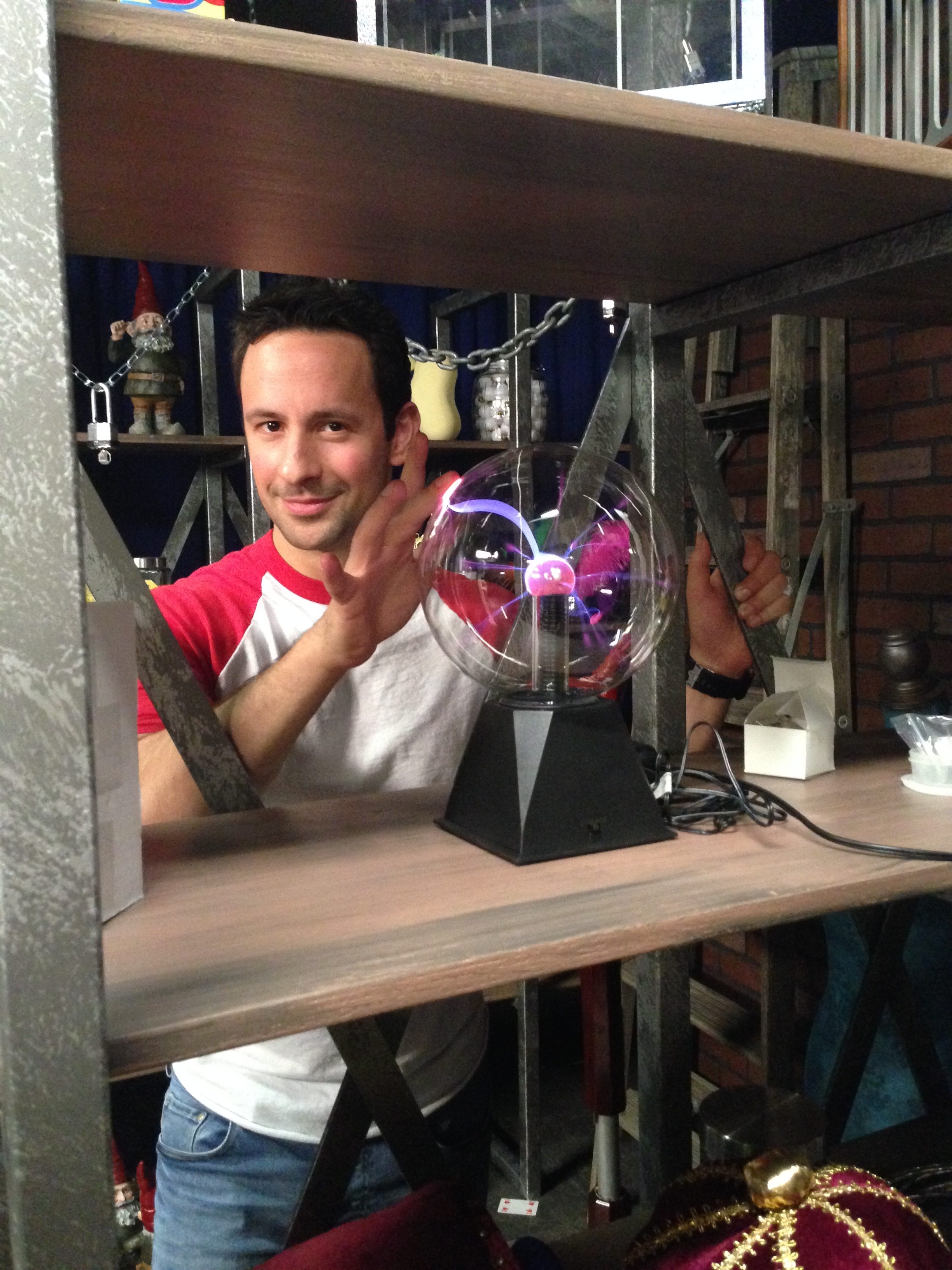 Rick Lax pictured in the Wizard Wars 'Magic Shop'